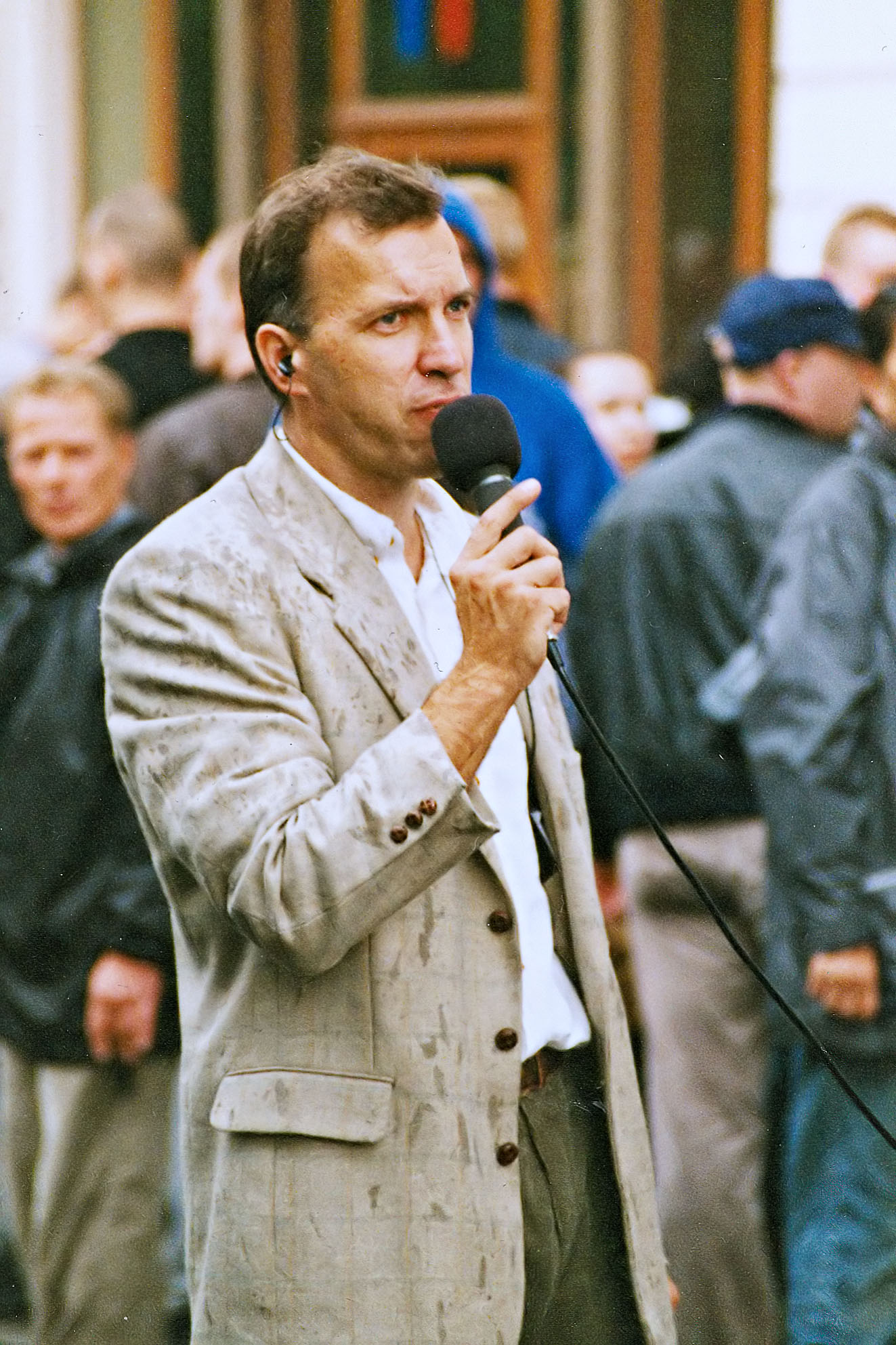 German national socialist Steffen Hupka at a revisionistic demonstration in Leipzig, East-Germany (2001-09-01). Hupka was the annnouncer of the demonstration, the title was 'September 01 - now and then: For freedom, piece and home rule'. In 1939-09-01 Germany had attacked Poland. It was the beginning of World War II.